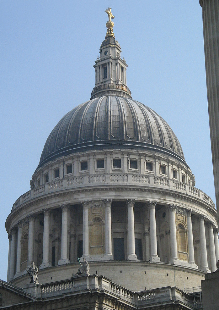 St Paul's Cathedral, London, viewed from Paternoster Square